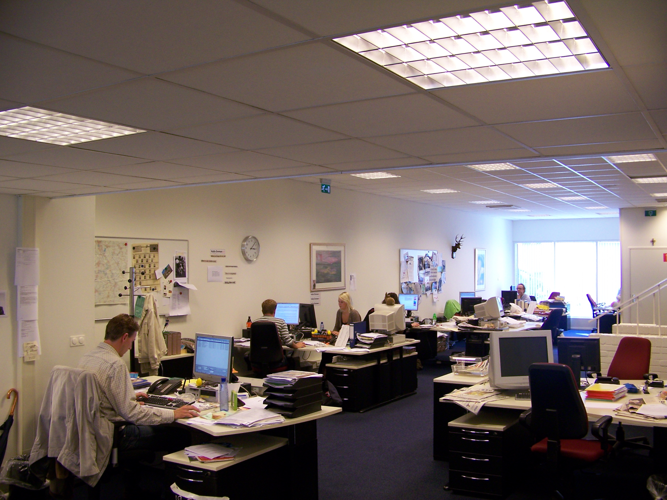 Redaction of Dagblad van het Noorden in Emmen